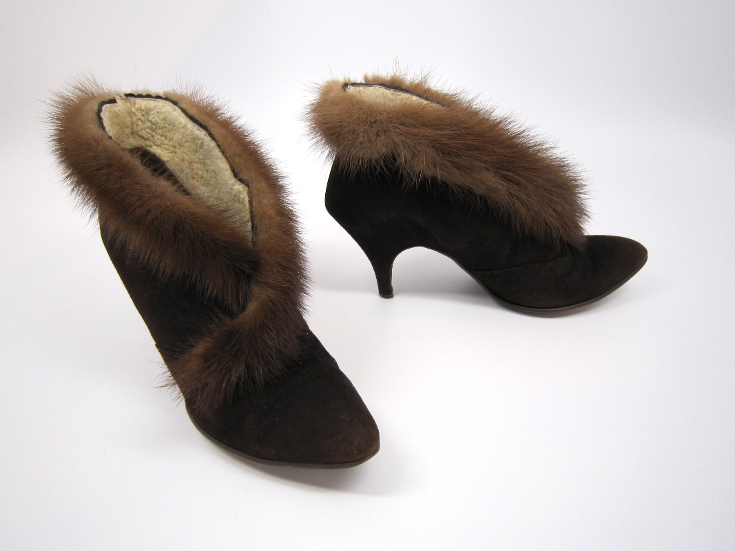 As the weather cools, the search for warm clothing begins. From the Society’s footwear collection, these dark brown suede booties are lined with sheepskin and trimmed with mink. The donor purchased these boots from Dayton's in St. Paul, 1960-63. Featured on the Minnesota Historical Society’s Collections Up Close blog